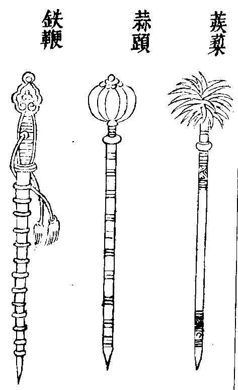 Bian gan and bang maces.